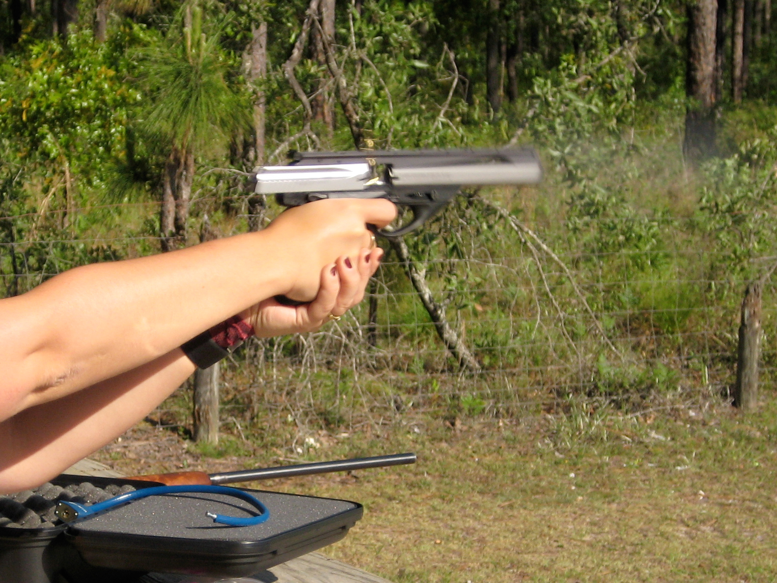 Shooting the Beretta U22 Neos (Inox version) with spent casing spinning out from ejection port.